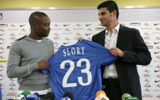 Andwele Slory with Georgi Ivanov - Gonzo